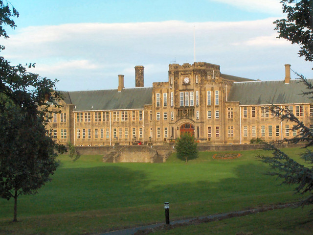 Bradford Grammar School, an independent school. Seen from Keighley Road.